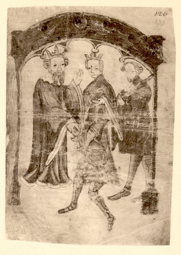 Sir Gawain's return to Arthur's court (BL Cotton Nero A.x.)